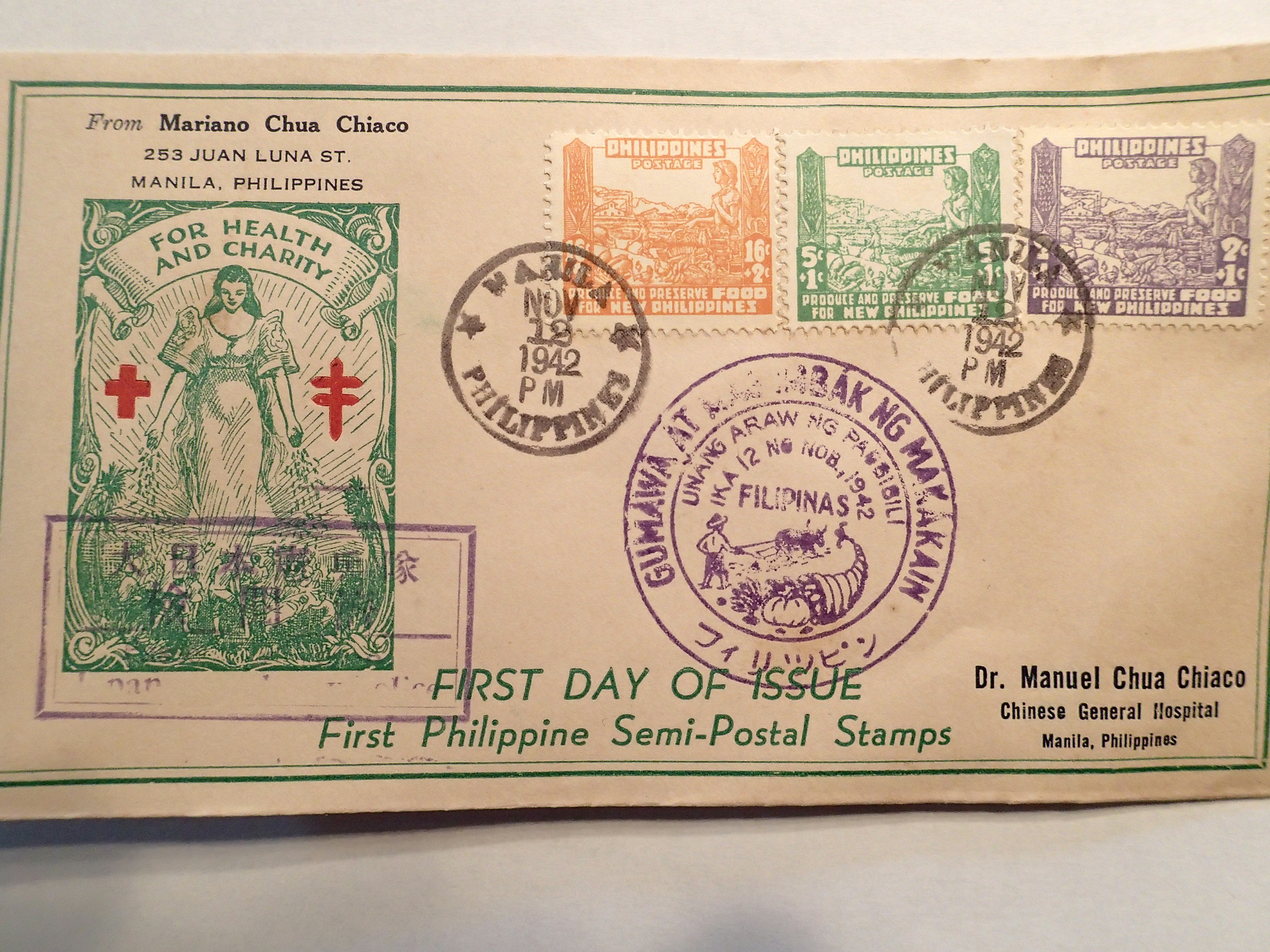 Japanese Occupation of the Philippines Postal History. Stamps issued by the Philippine Executive Commission (1942-1944)